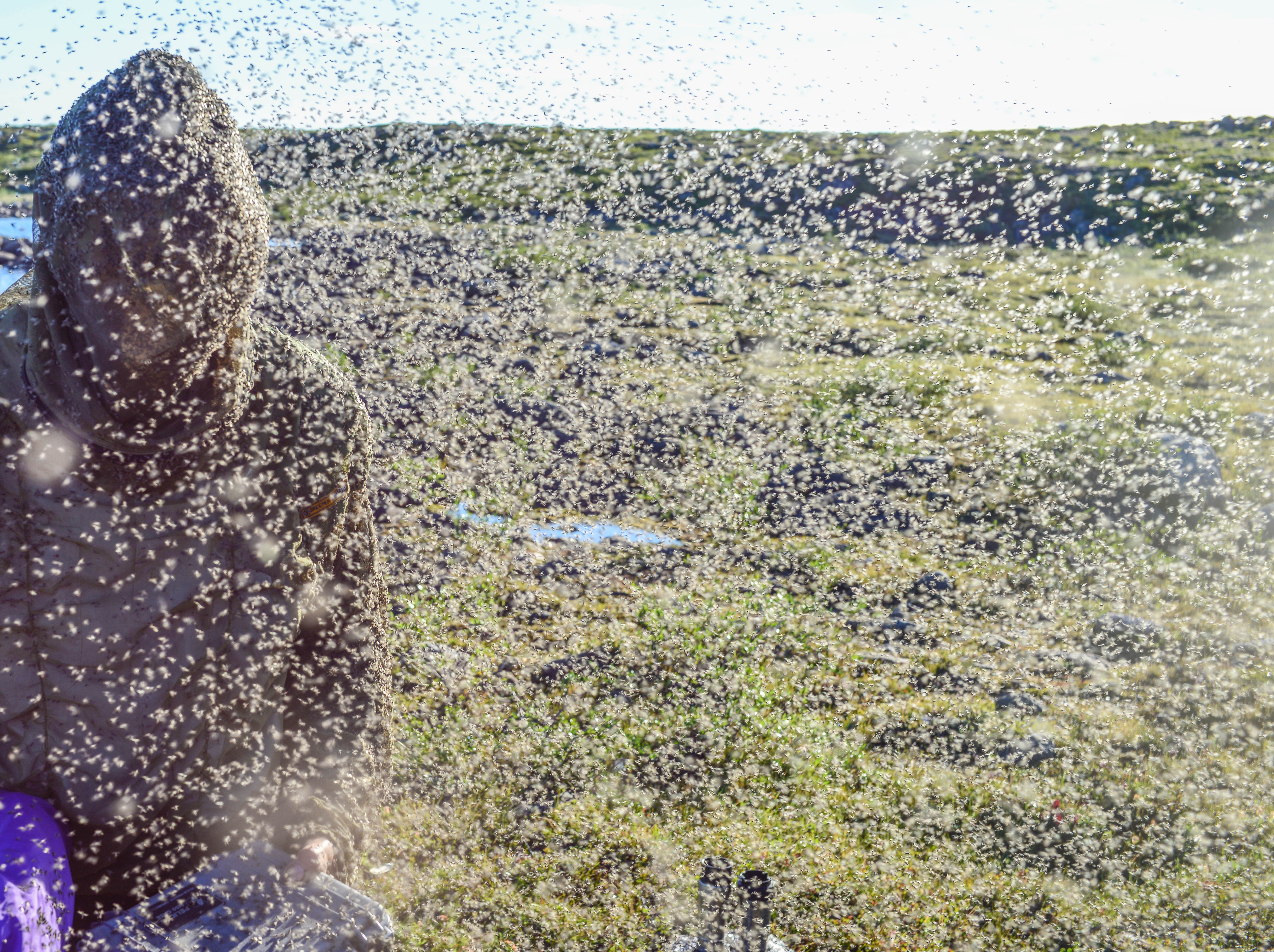 Black flies attack in the Canadian arctic, Dubawnt River Nunavut